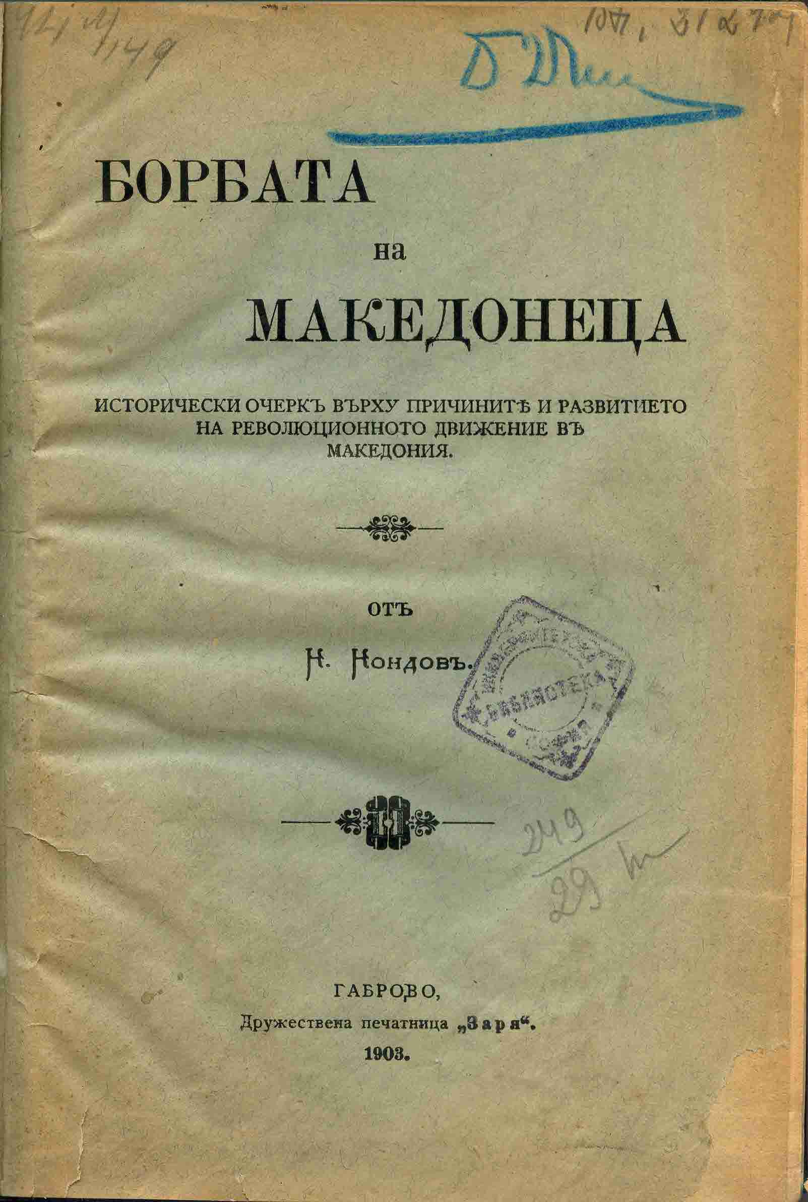 The Struggle of the Macedonian by Konstantin Kondov